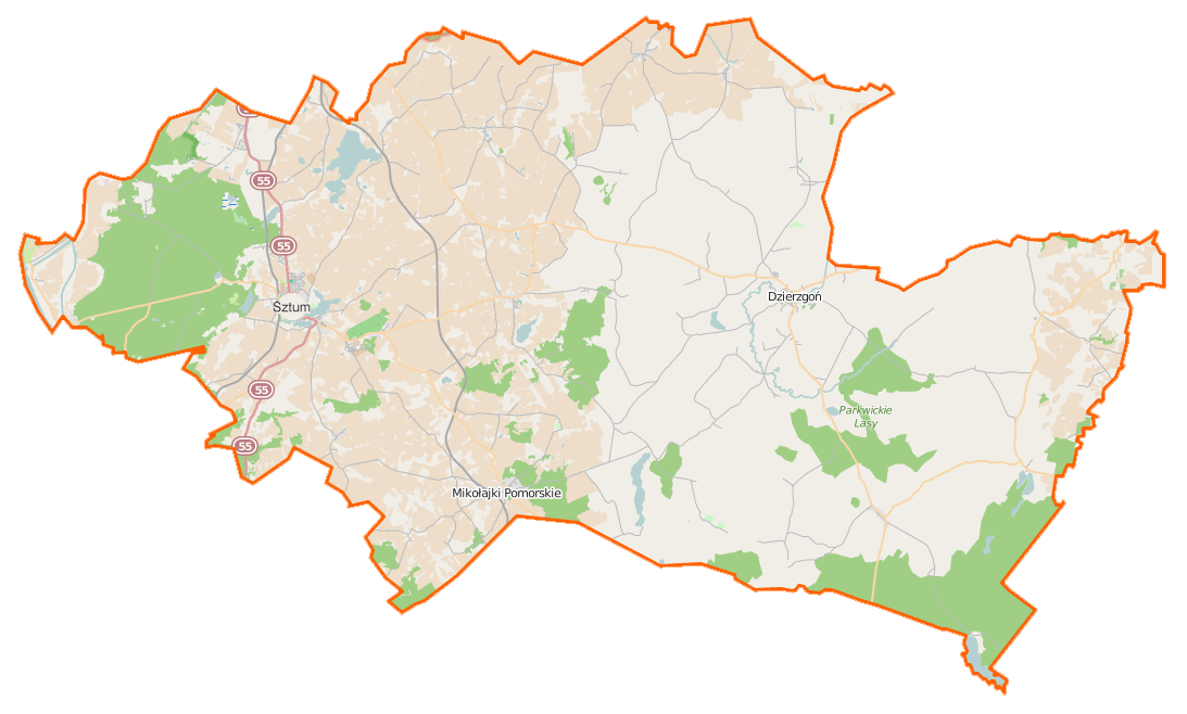 Map of Powiat sztumski, Poland This map of Powiat sztumski was created from OpenStreetMap project data, collected by the community. This map may be incomplete, and may contain errors. Don't rely solely on it for navigation.